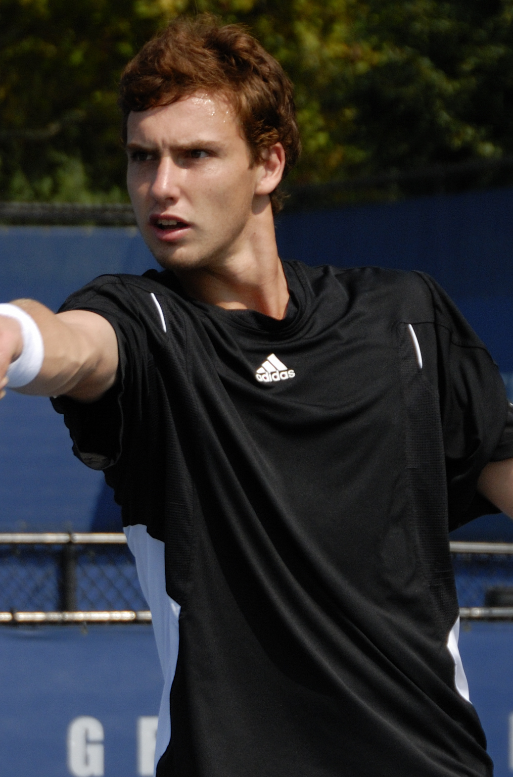 Ernests Gulbis at 2008 US Open